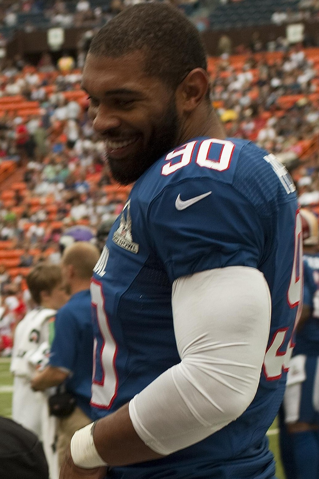 Minnesota Vikings defensive end Jared Allen (left), Chicago Bears DE Julius Peppers (right) and New York Giants DE Jason Pierre Paul joke about the previous defensive series during the 2013 NFL Pro Bowl at Aloha Stadium, Jan. 27.